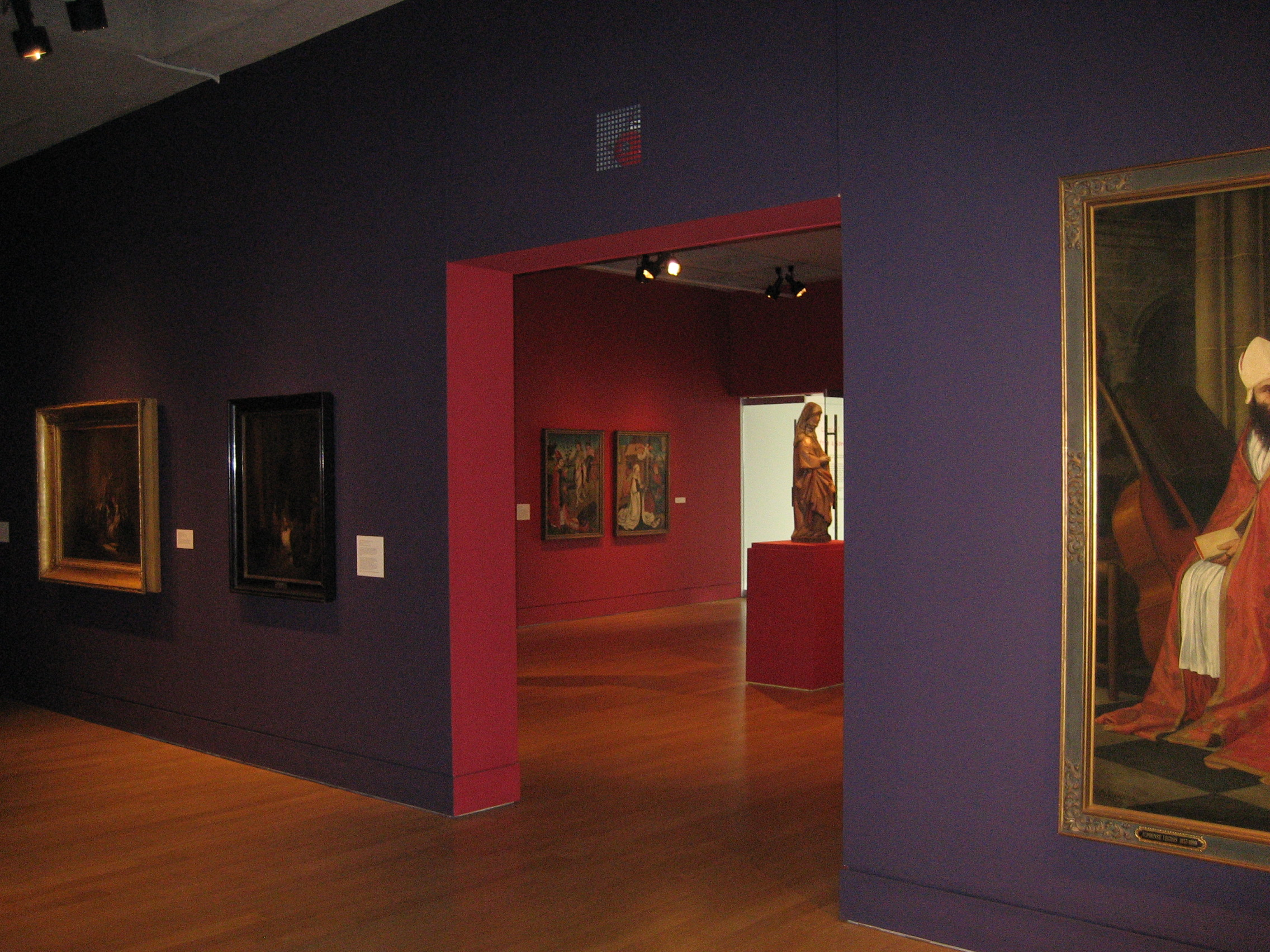 Art Gallery Hamilton, Hamilton, Canada.